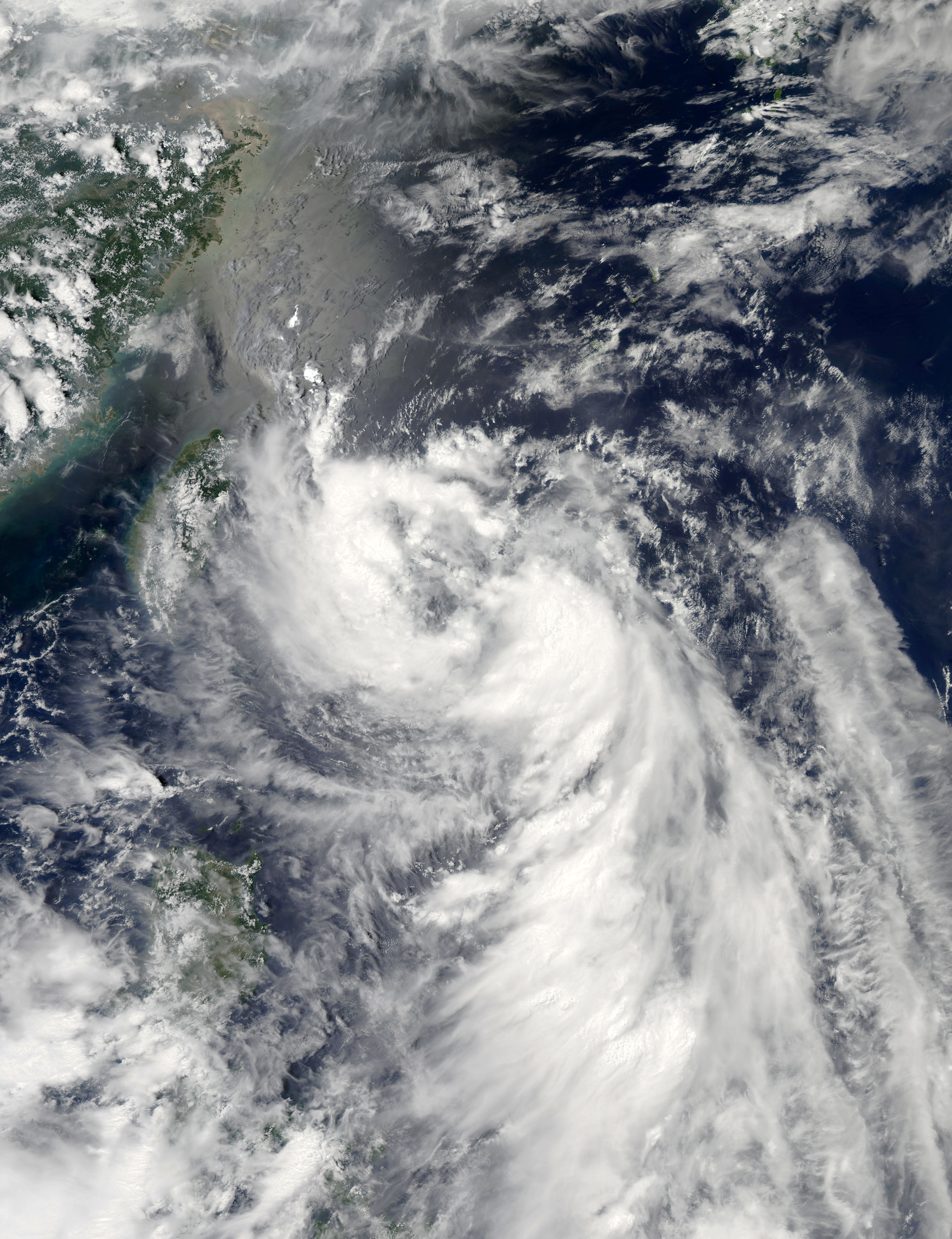 Tropical Storm Leepi on June 19, 2013 in the East China Sea.